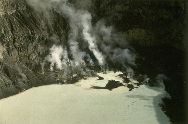 Mahawu volcano, located immediately to the east of Lokon-Empung volcano, contains a 450-m-wide, 140-m-deep summit crater. Active fumaroles are seen in this 1991 photo of the north end of the crater, which sometimes contains a crater lake. Small-to-moderate explosive eruptions have been recorded at 1331-m-high Mahawu volcano since the 18th century.